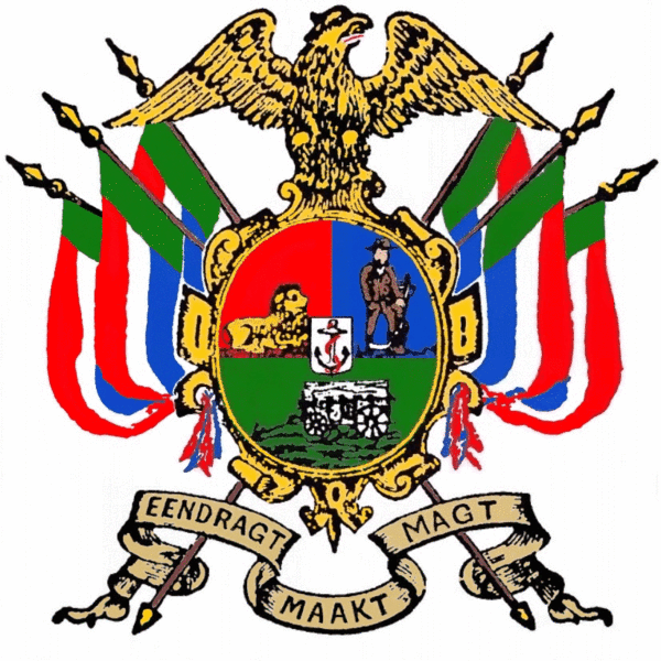 Illustration of arms from National and Provincial Symbols of the Republic of South Africa by F G Brownell. Information on arms and flag from National and Provincial Symbols, historical information from various articles in the Standard Encyclopædia of Southern Africa (Nasou).